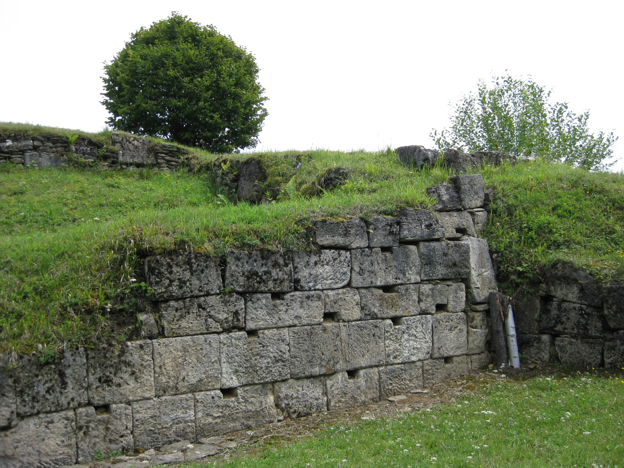 Dacian fortress at Blidaru, Hunedoara county, Romania 01